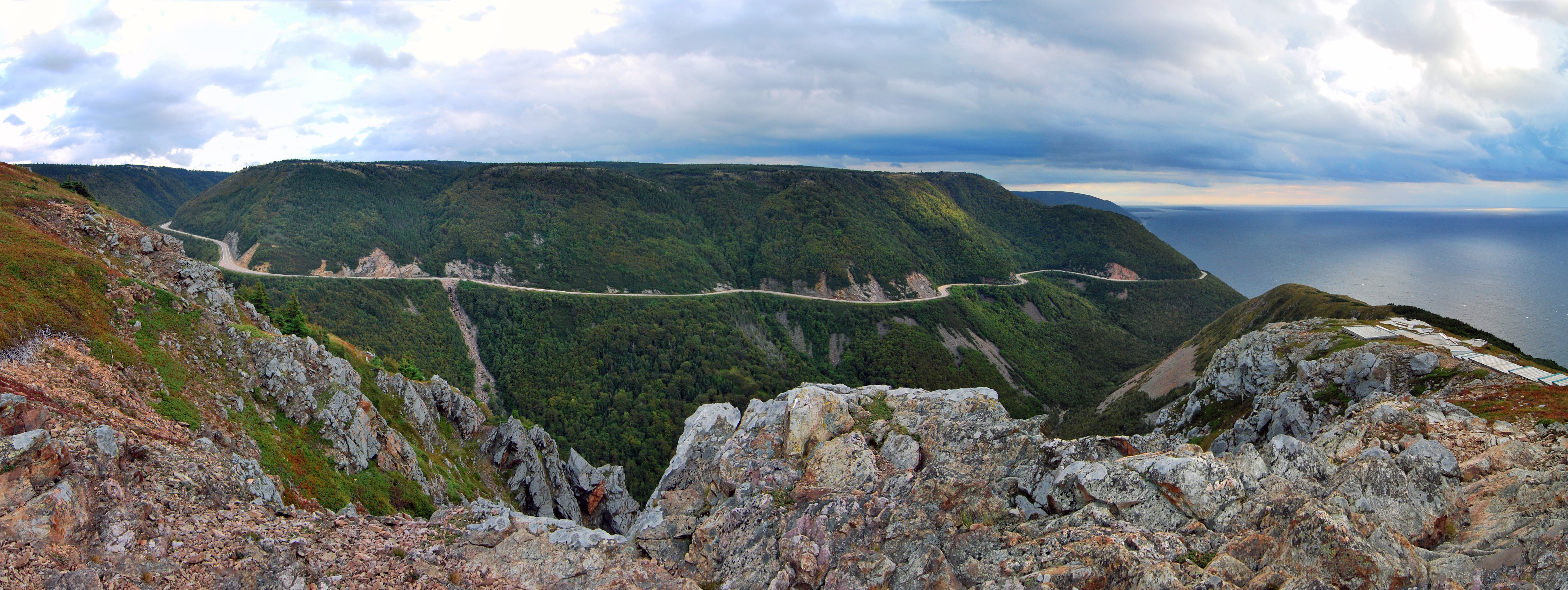 Cabot Trail Skyline Hike Cape Breton Island Canada 2009